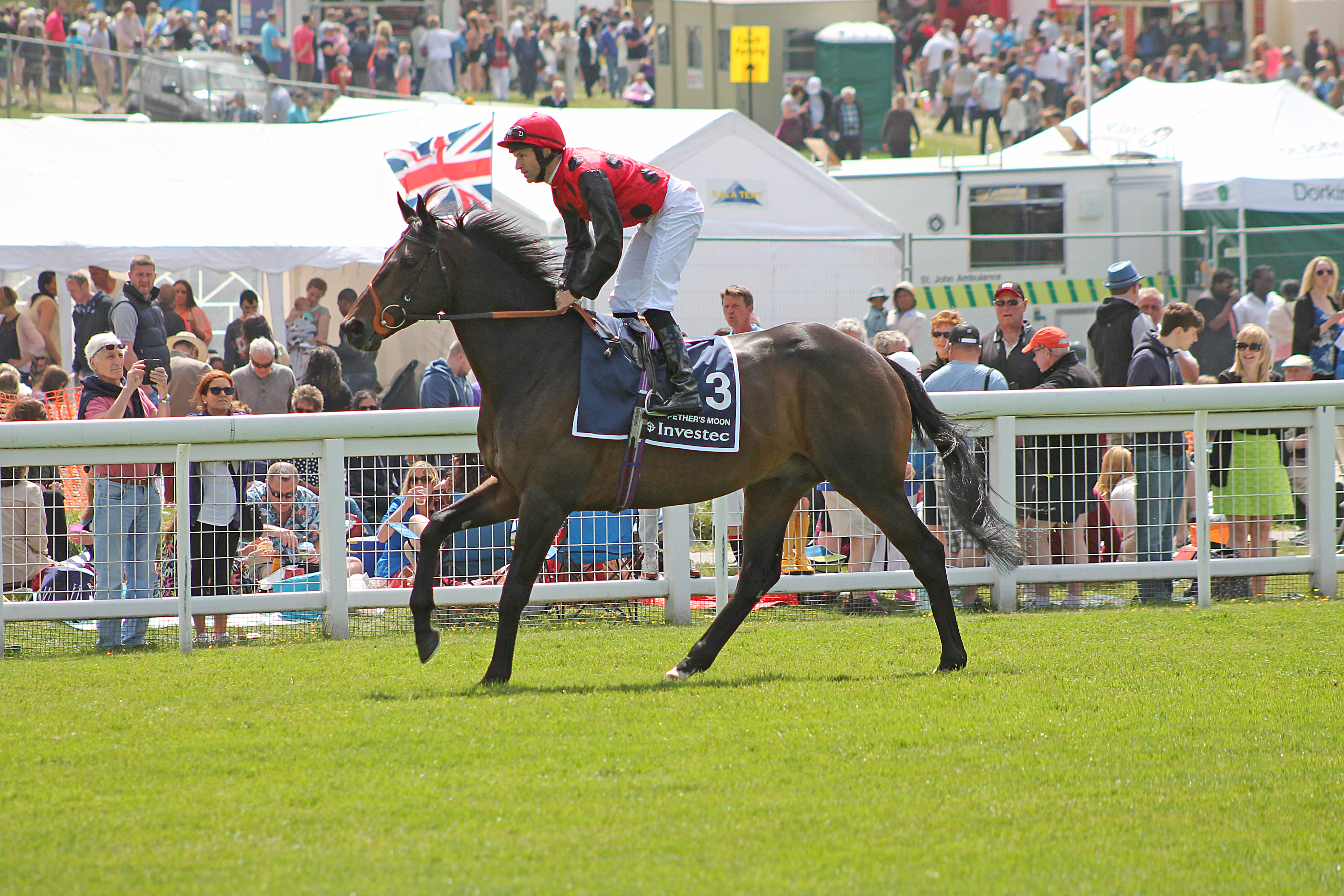 015 Epsom Derby Day 2015 - Coronation Cup - Pethers Moon and Pat Dobbs going to post Epsom Derby 2015.